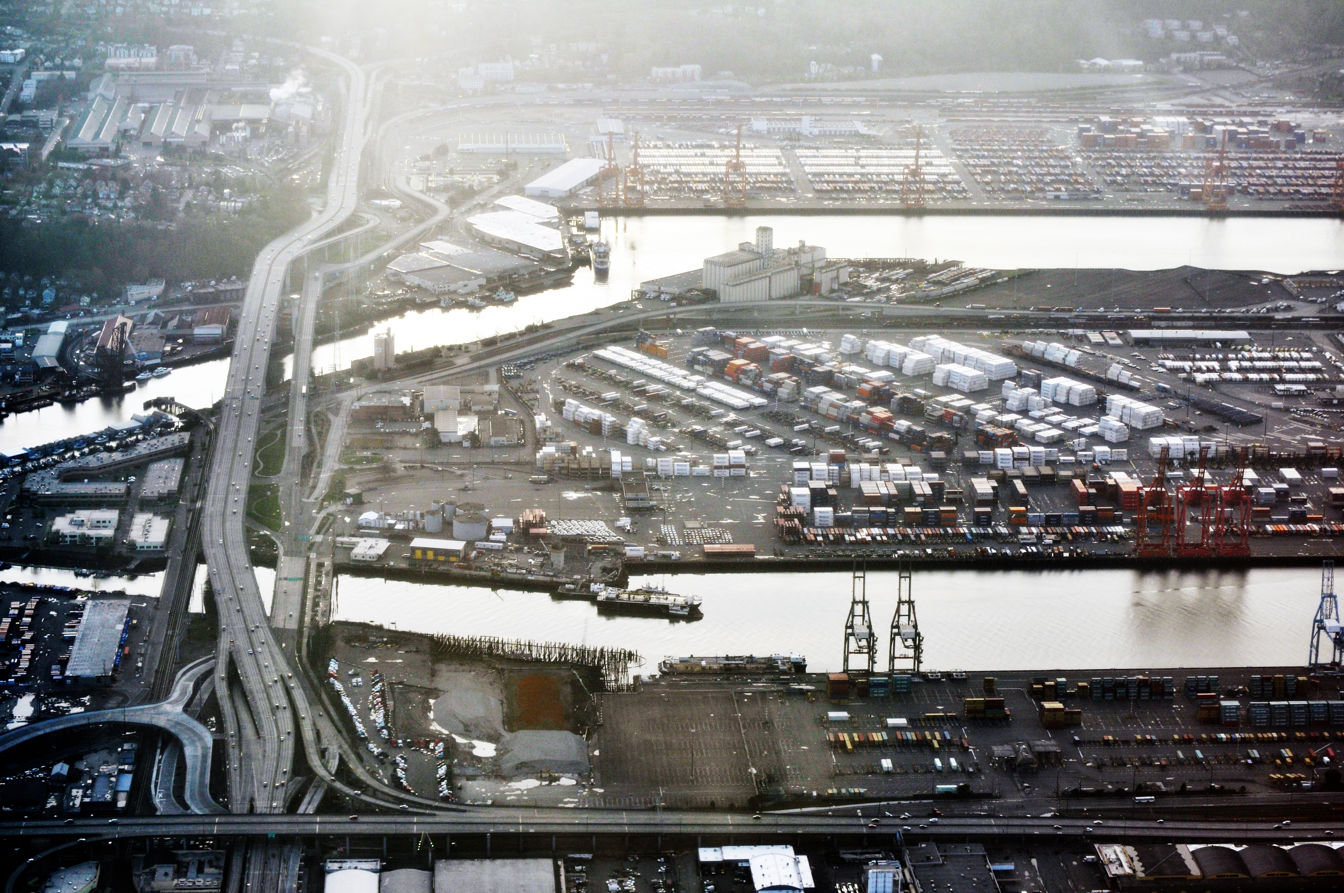 Harbor Island in the Duwamish Waterway, Seattle, Washington, USA. One of a series of photos taken from a low-flying airplane headed south, east of the island.